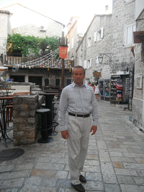 Dragan Djokanovic in Budva, Montenegro